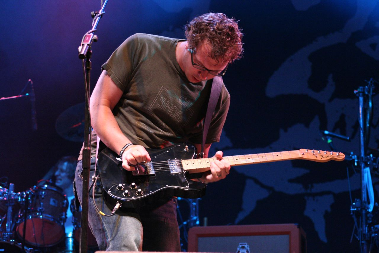 Ben Ottewell, Gomez Beautiful Days Festival, Devon, Main Stage, 18 August 2006